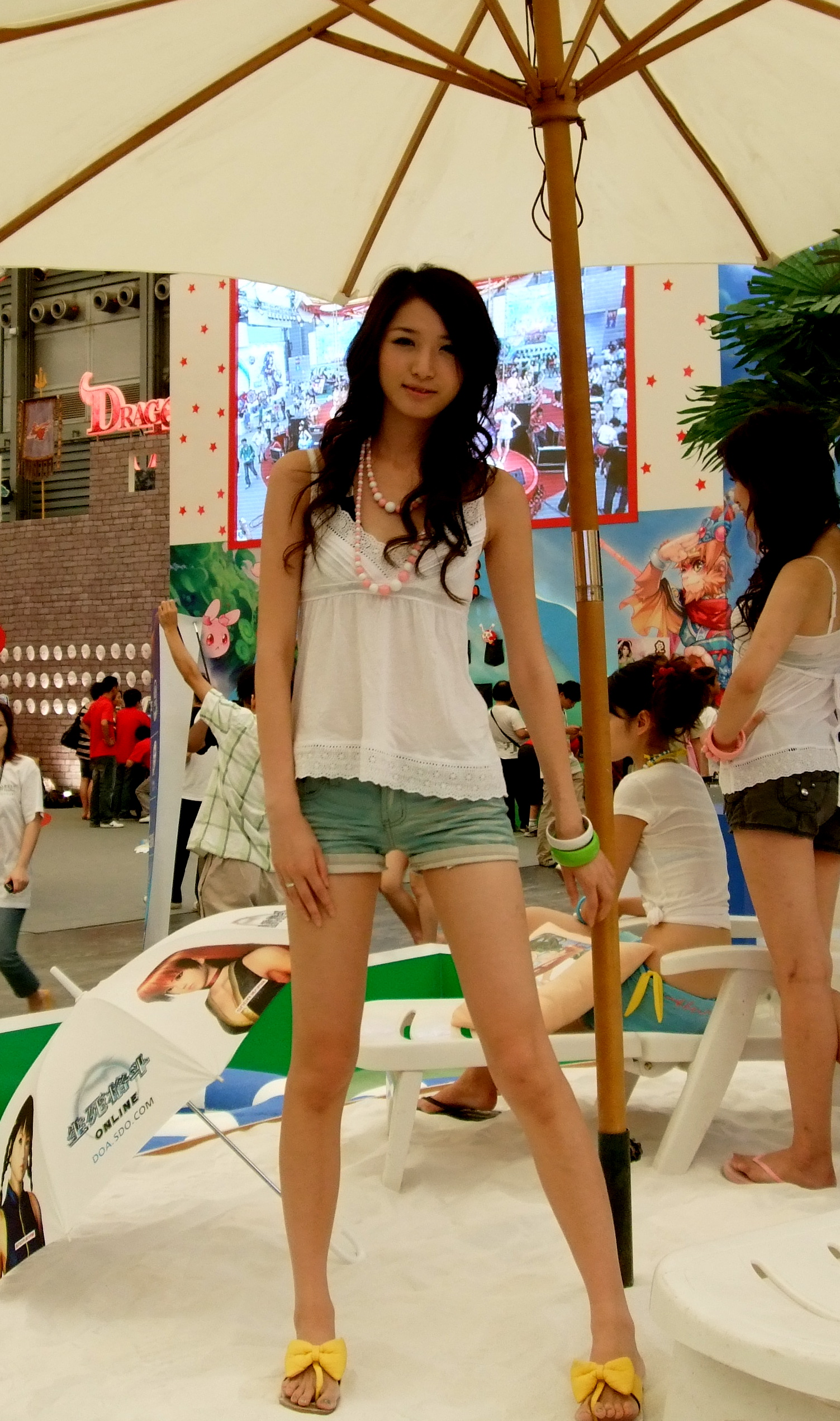 The showgirl for game "Dead Or Alive Online" on China Digital Entertainment Expo & Conference (ChinaJoy) 2007, Shanghai, China.